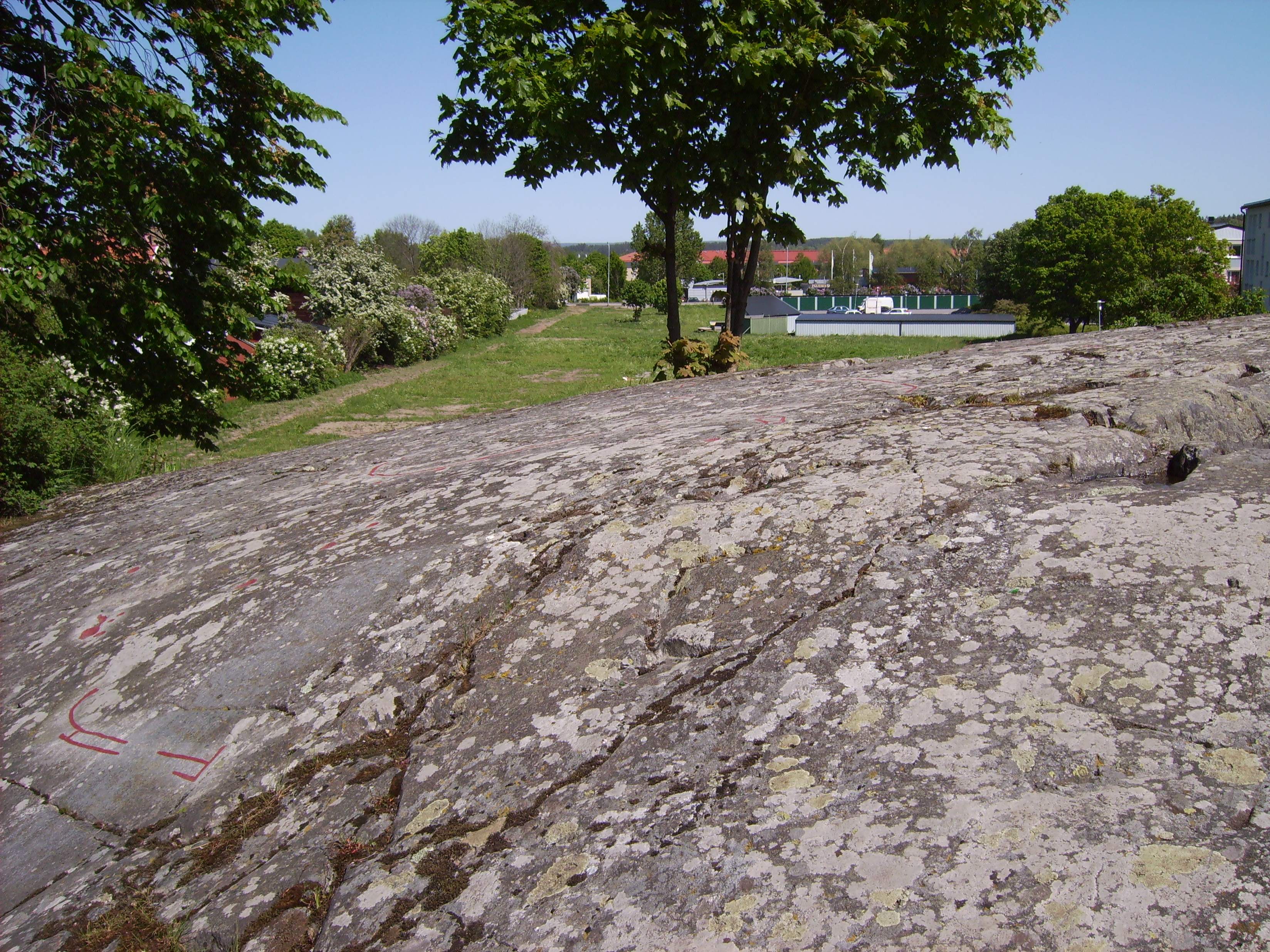 Photo by Harri Blomberg.